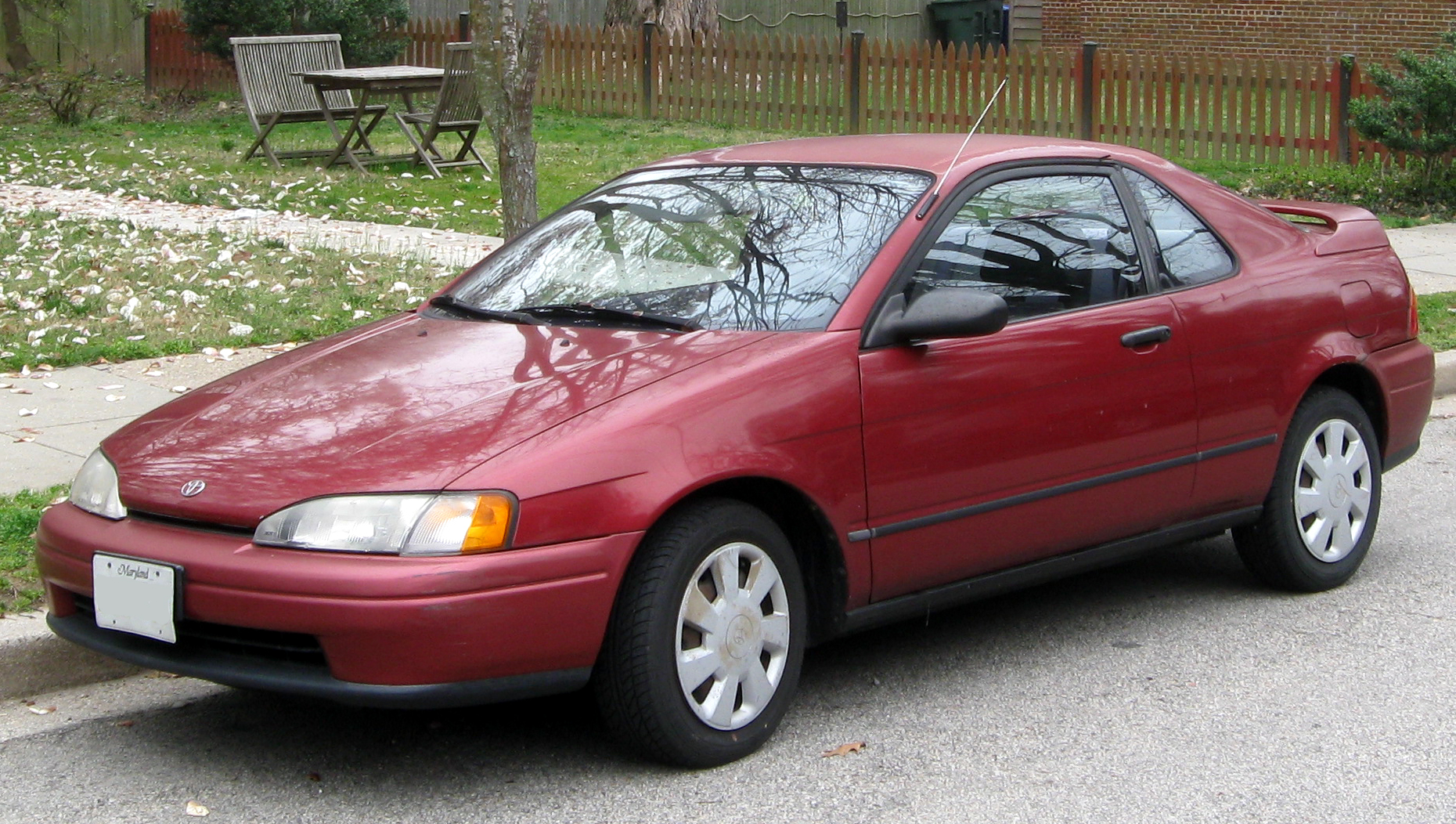 1991-1994 Toyota Paseo photographed in Washington, D.C., USA.